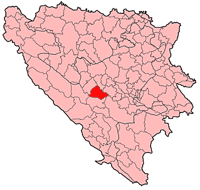 Municipality of Gornji Vakuf-Uskoplje in Bosnia and Herzegovina